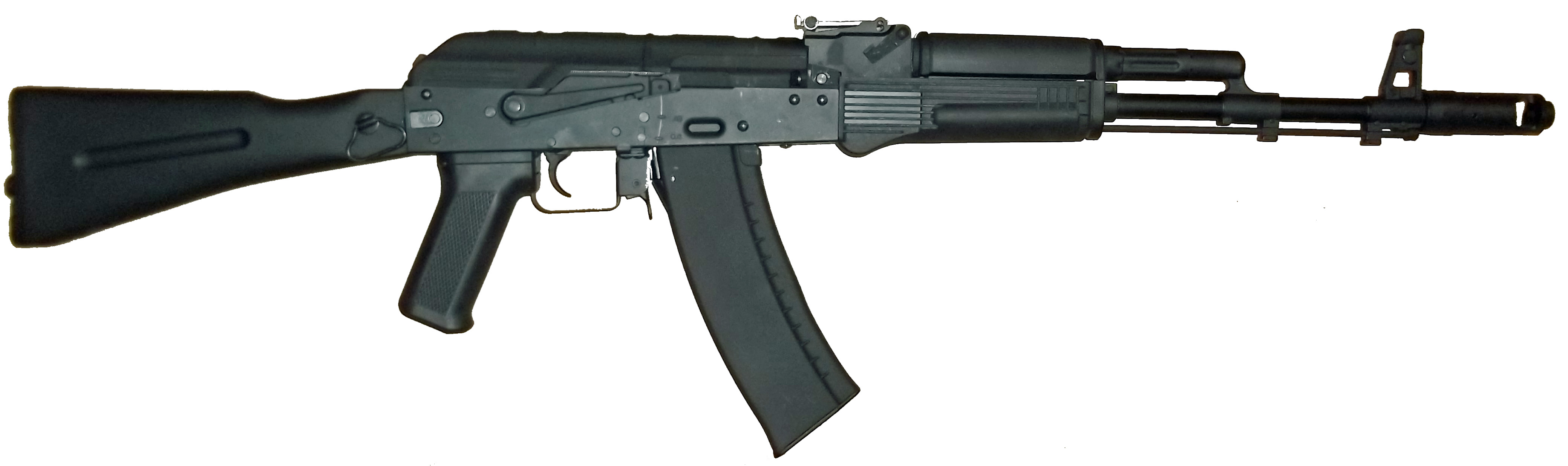 AK-74M service rifle